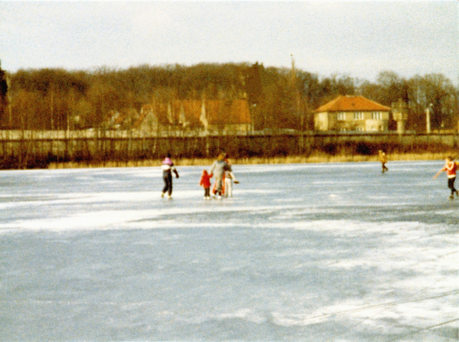 Groß Glienicker See with Berlin Wall in December 1982